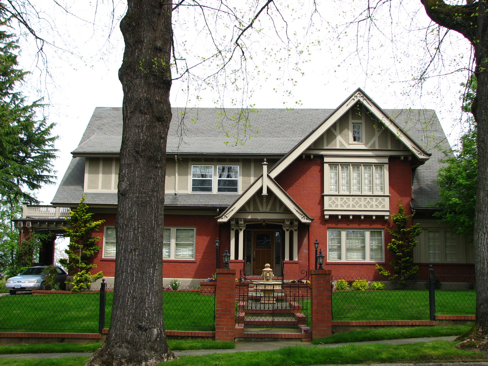 The Blaine Smith House at 5219 Southeast Belmont Street in Portland, Oregon, United States, is listed on the US National Register of Historic Places.